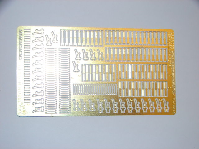 Pemetal